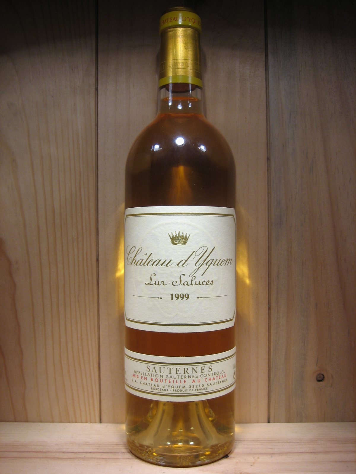 Bottle of Château d'Yquem 1999